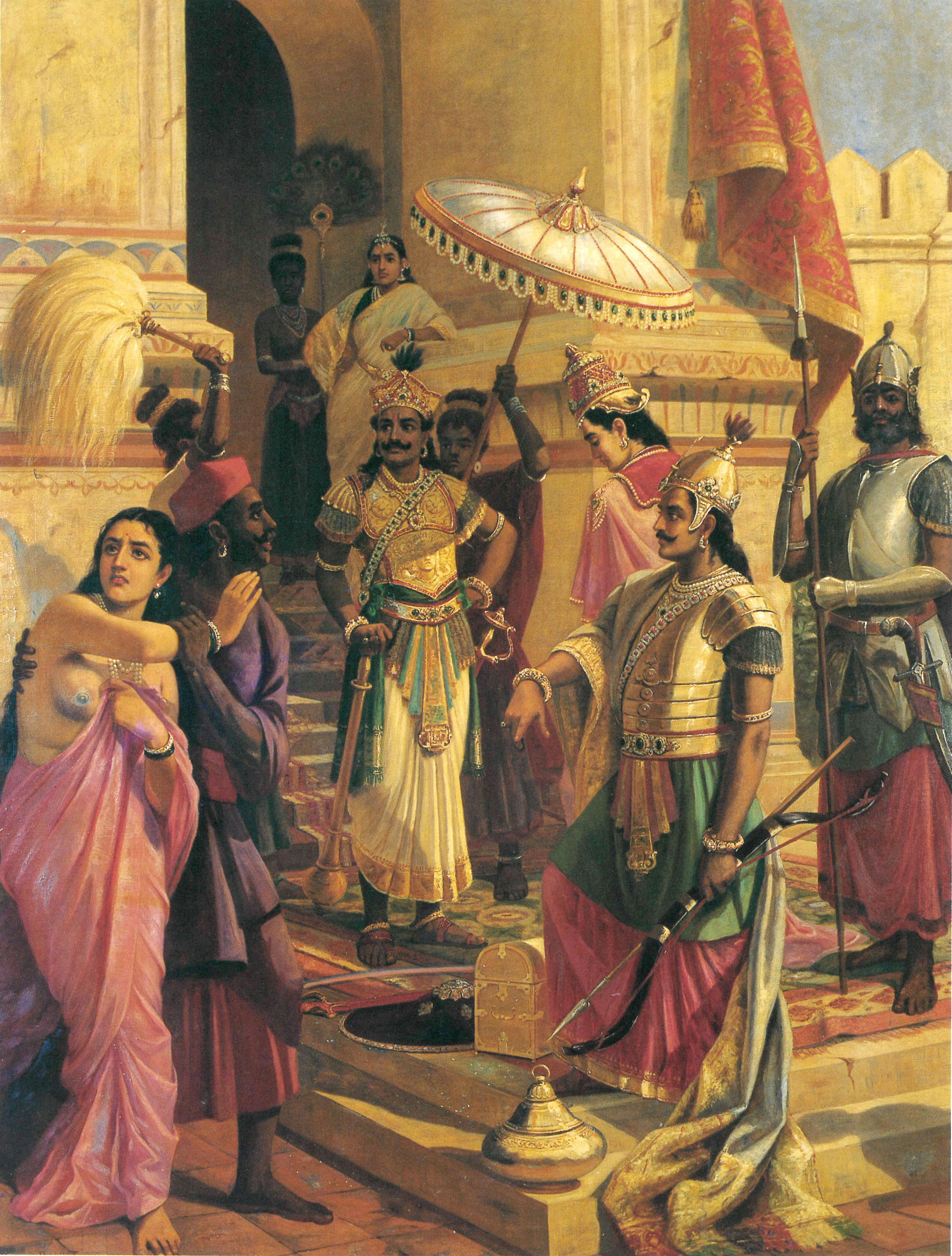 Meghanath or Indrajit, after his victory over Indra, presenting Sachi Devi to Ravana.